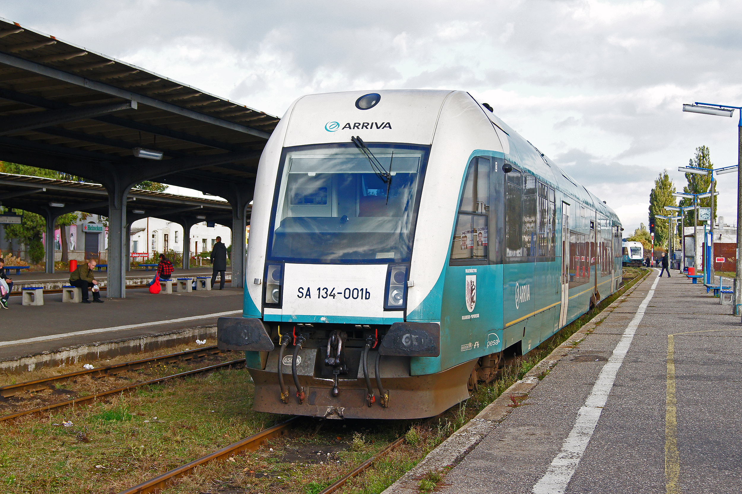 Train SA134-001b at Grudziądz Train Station, Poland.